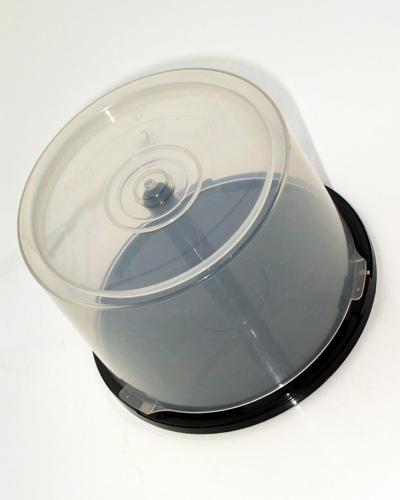 An empty cd spindle from bulk buying compact discs